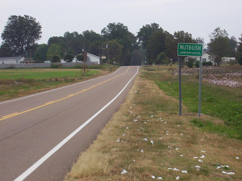 Nutbush, Tennessee. Sign marking the "Nutbush City Limits" of the unincorporated community. I made the photo myself, feel free to use it. The image is also published at my private website I am the author and copyright holder of the image and release all rights to it into the public domain. Attribution is appreciated but not required.